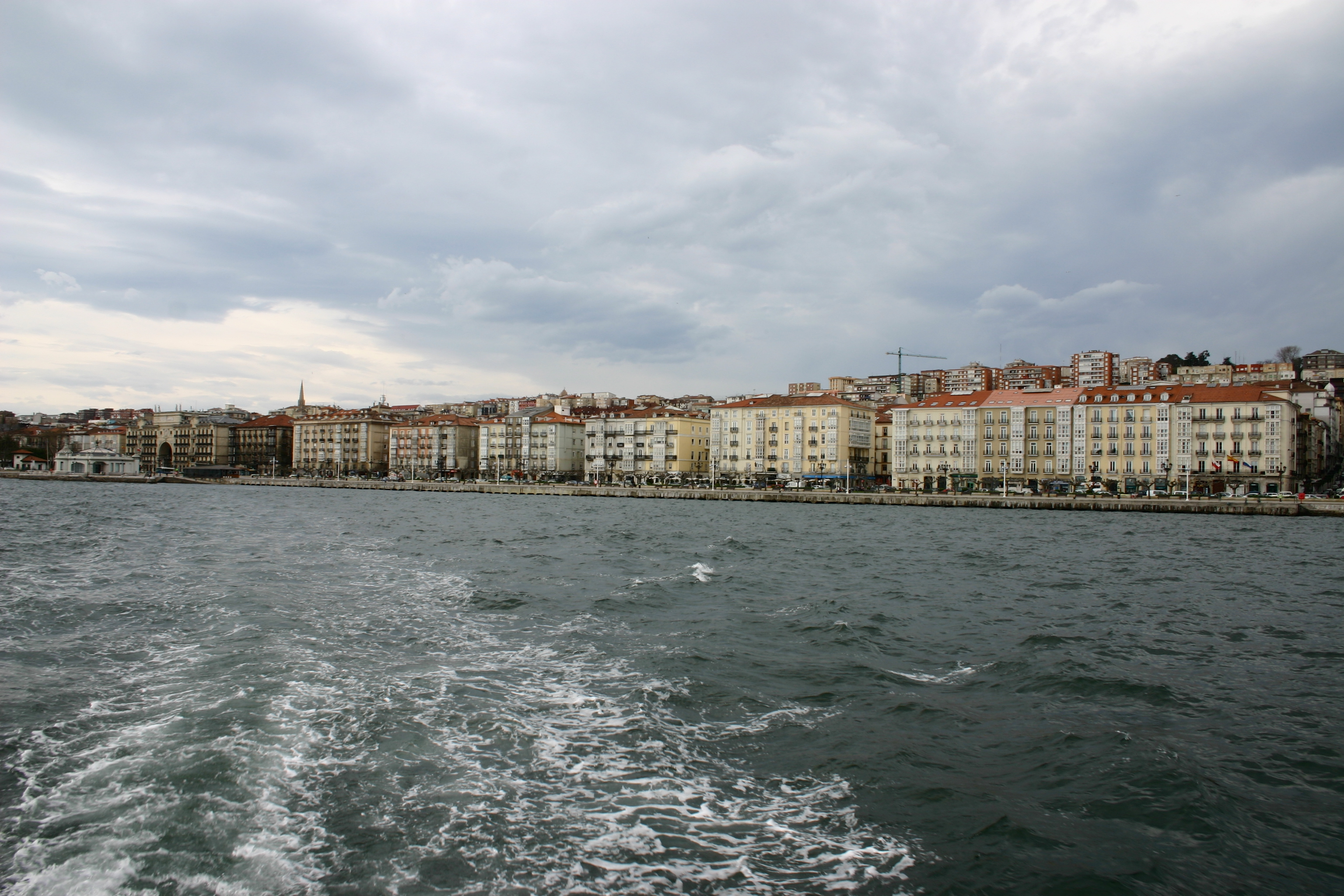 City of Santander. Taken from a ship.